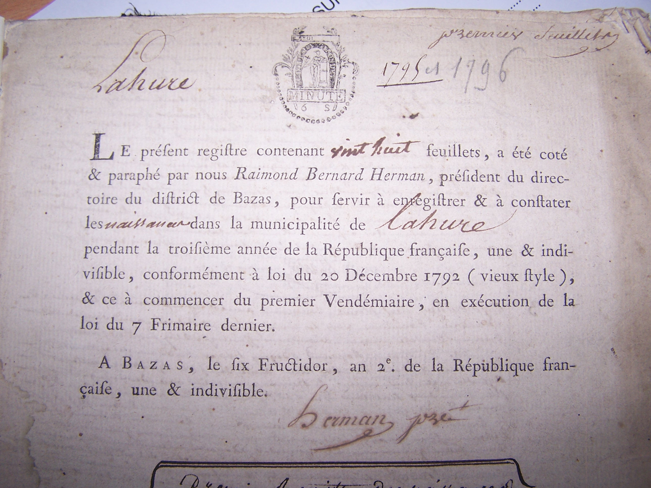 Document of Saint-Symphorien (Gironde, France)